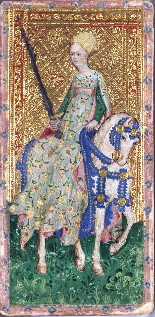 Horsewoman of Swords (Spades) from the Cary-Yale Visconti tarot deck